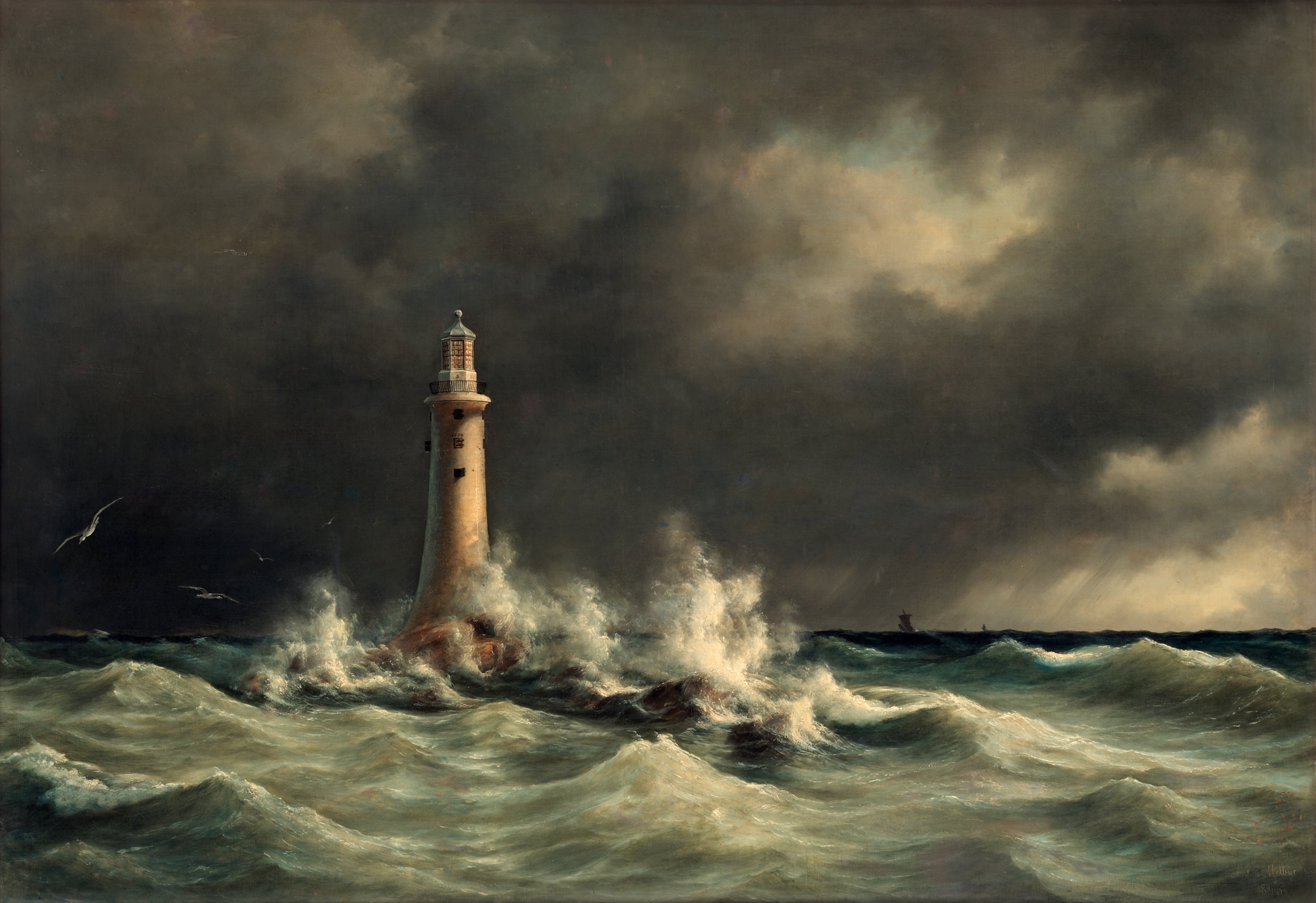 This is not a lighthouse in "Stora Bält". This is the Eddystone lighthouse. Melbye made another version in 1846 - of similar size - which was sold to Statens Museum for Kunst in Copenhagen in 1866.